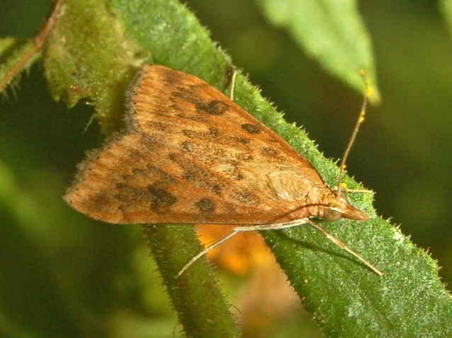 Udea ferrugalis. Arquata, Alessandria, Italy